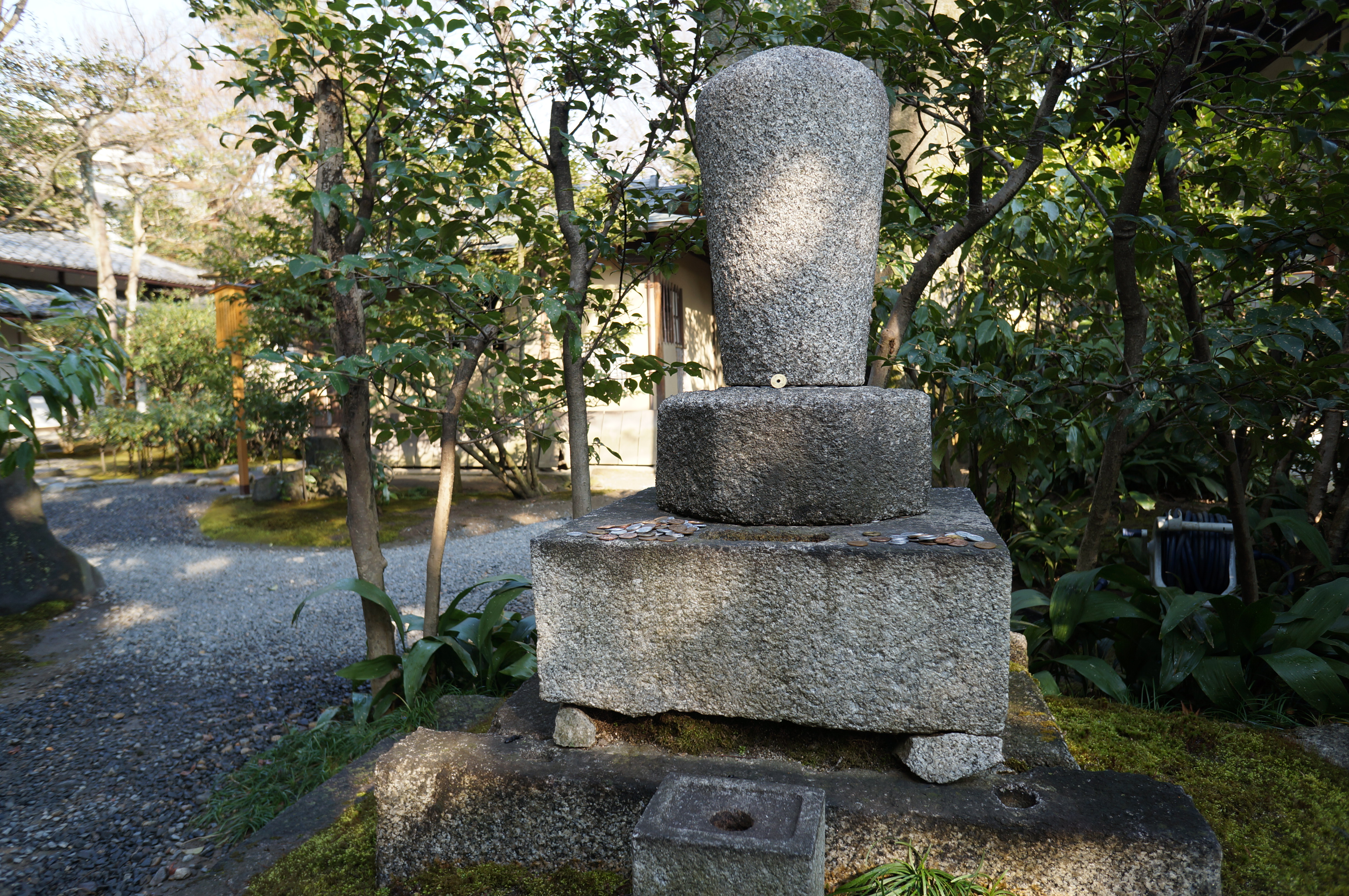 The kubizuka (grave) of Ankokuji Ekei in Kennin-ji, Kyoto